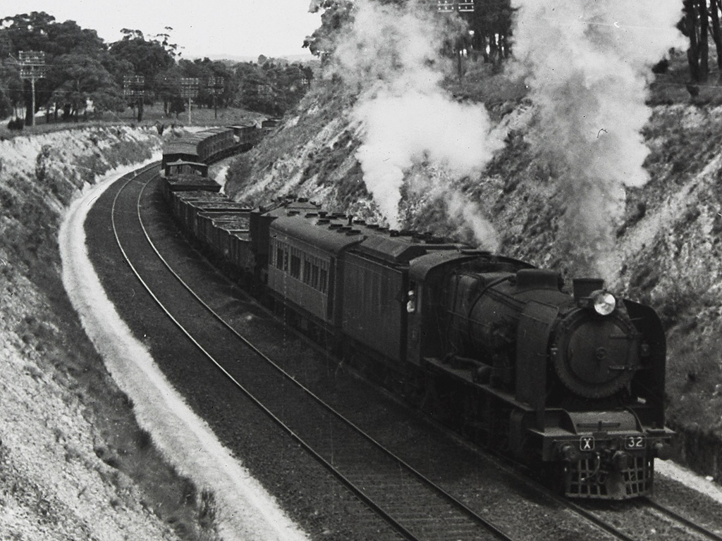 Victorian Railways X class locomotive X 32 on Macedon bank with a goods train. A dynamometer car immediately behind the locomotive is being used to measure its performance.